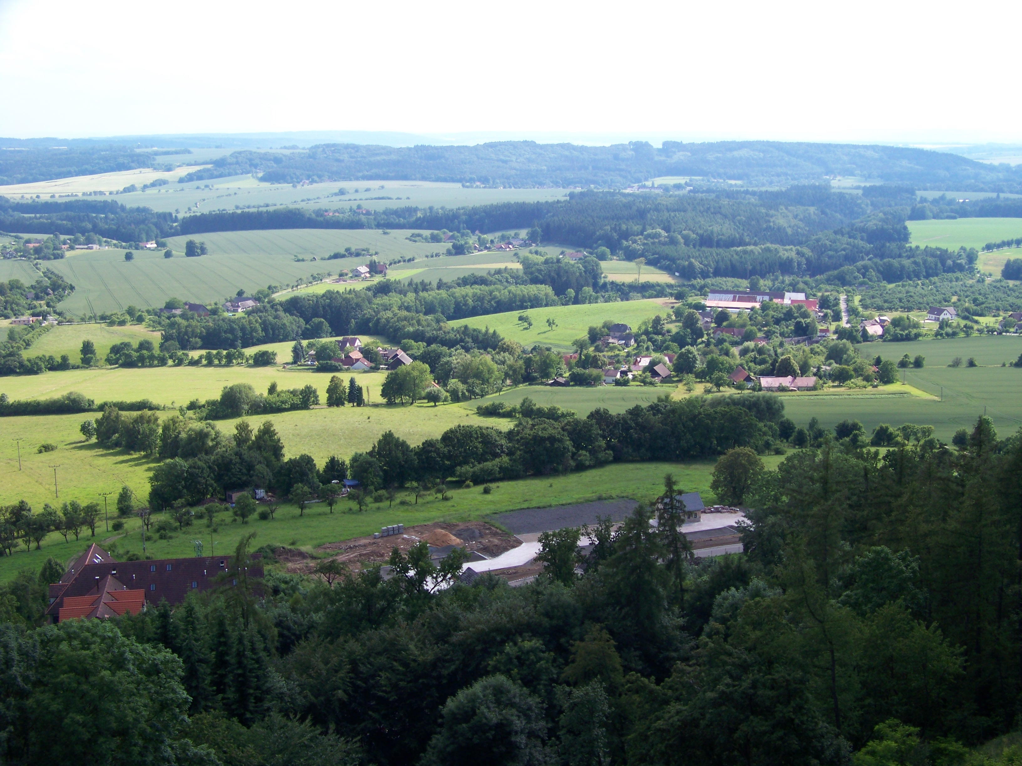 Troskovice, Liberec Region, the Czech Republic. A view from Trosky Castle.